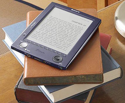 A Picture of an eBook